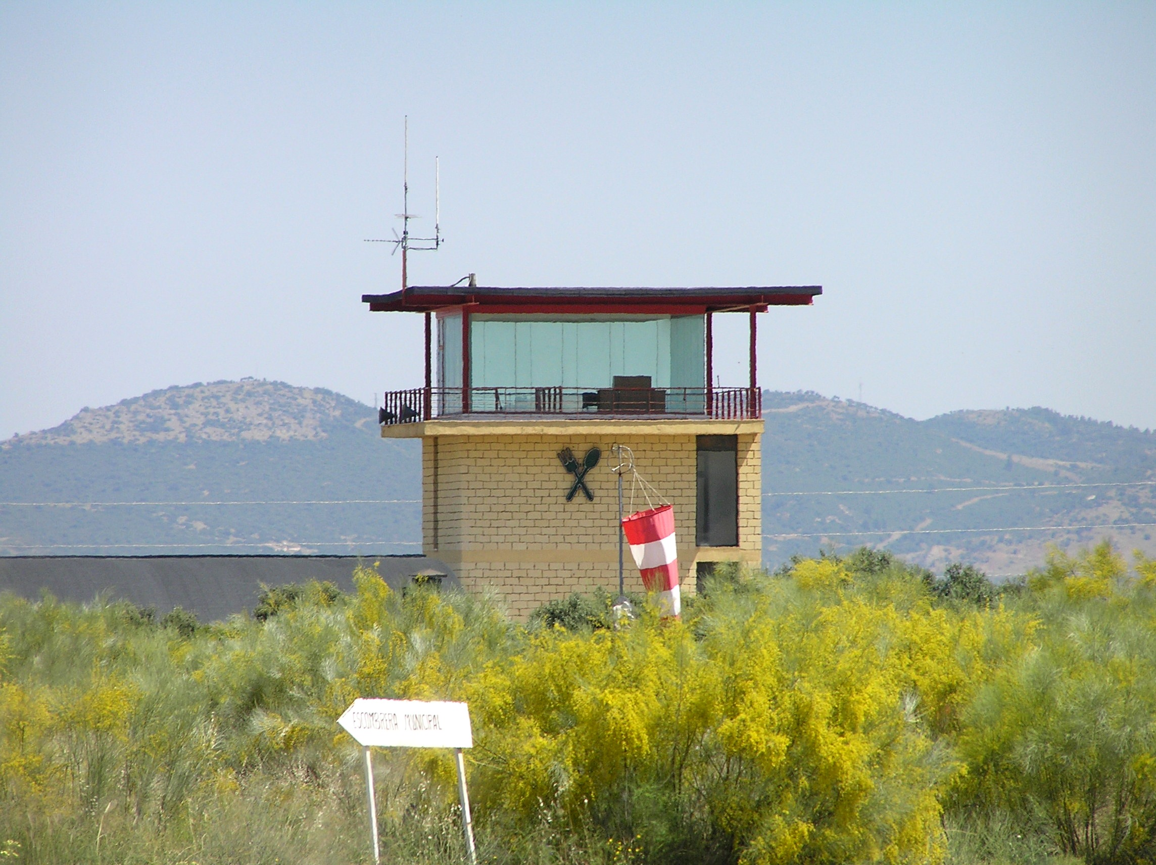 Torre de control del aeródromo El Cornicabral